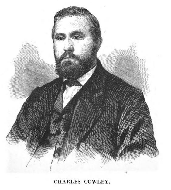 portrait of Charles Cowley